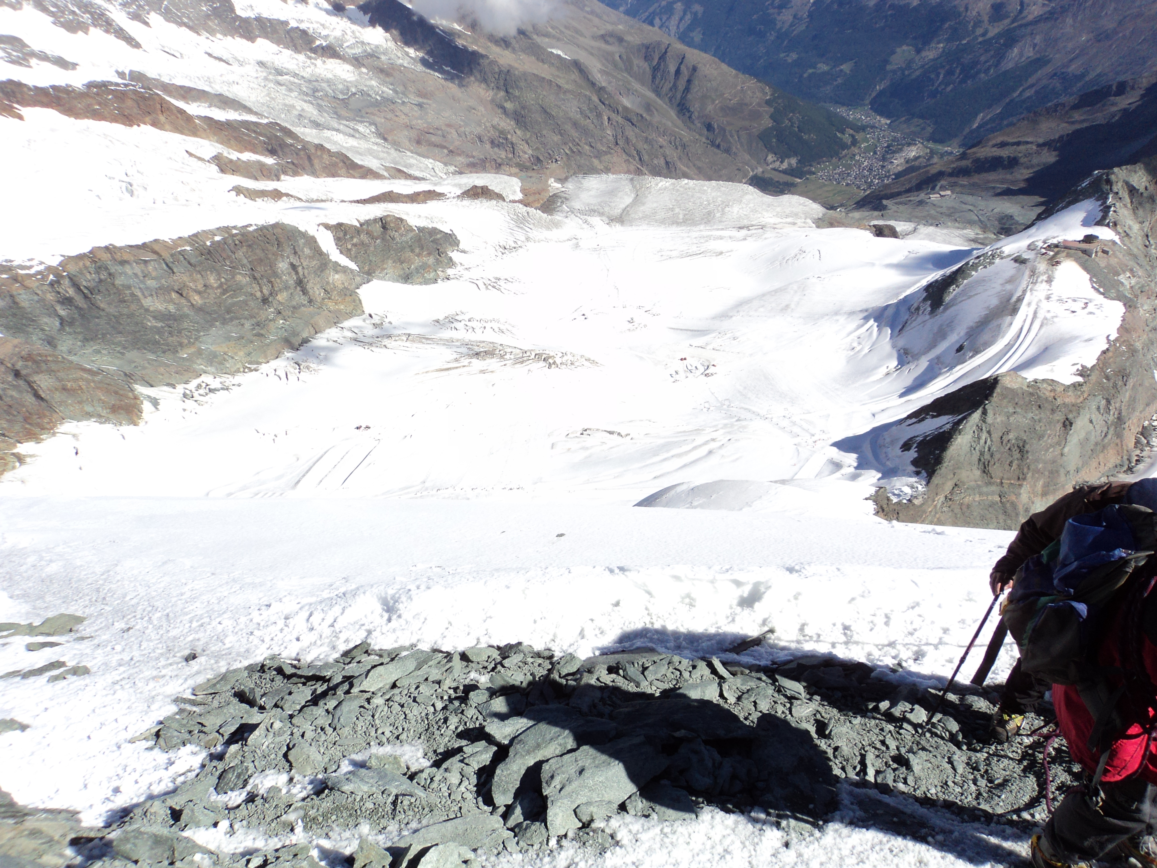 Fee Glacier from top Allalinhorn